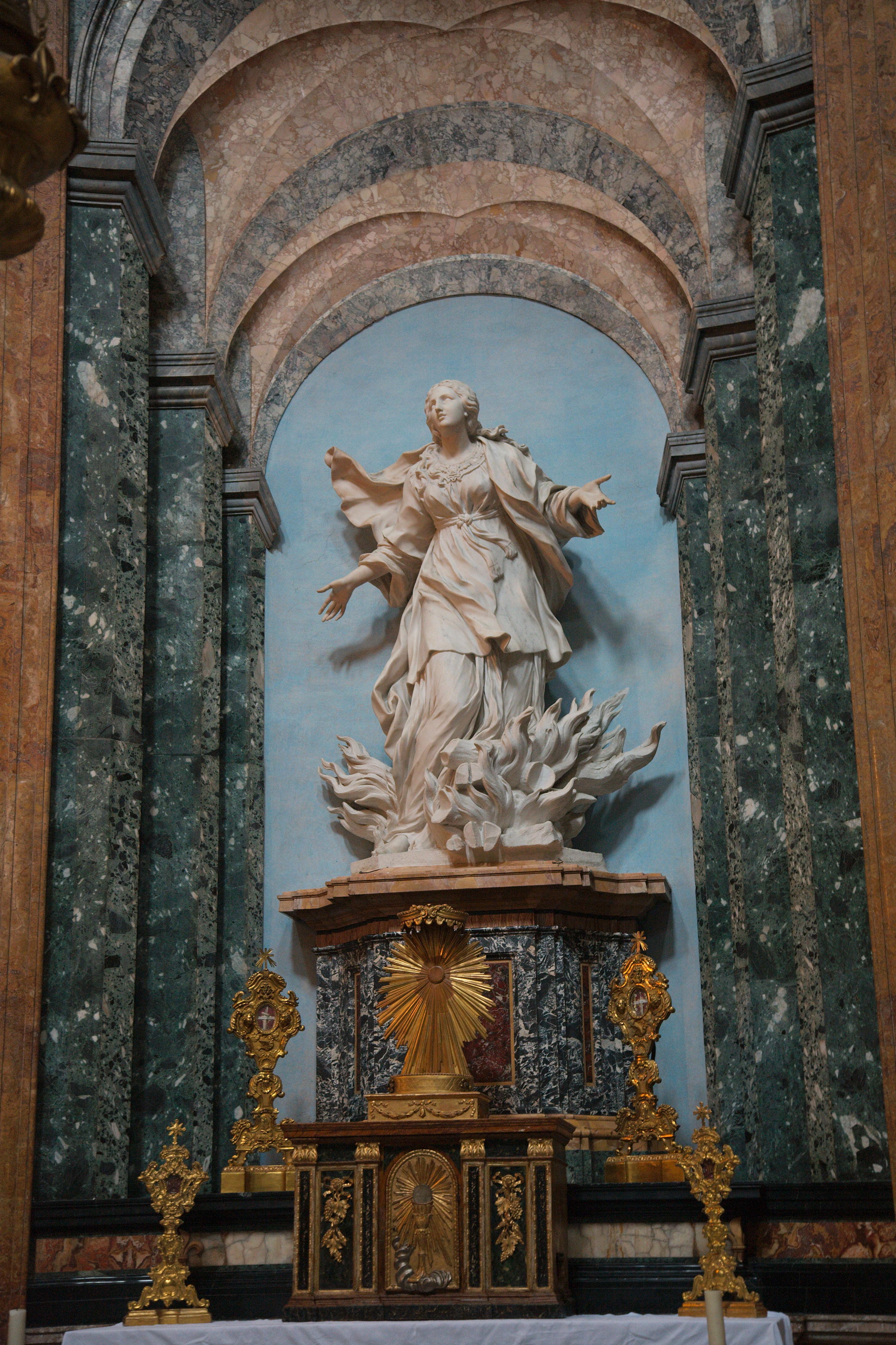 Statue of Saint Agnes in Flames by Ercole Ferrata